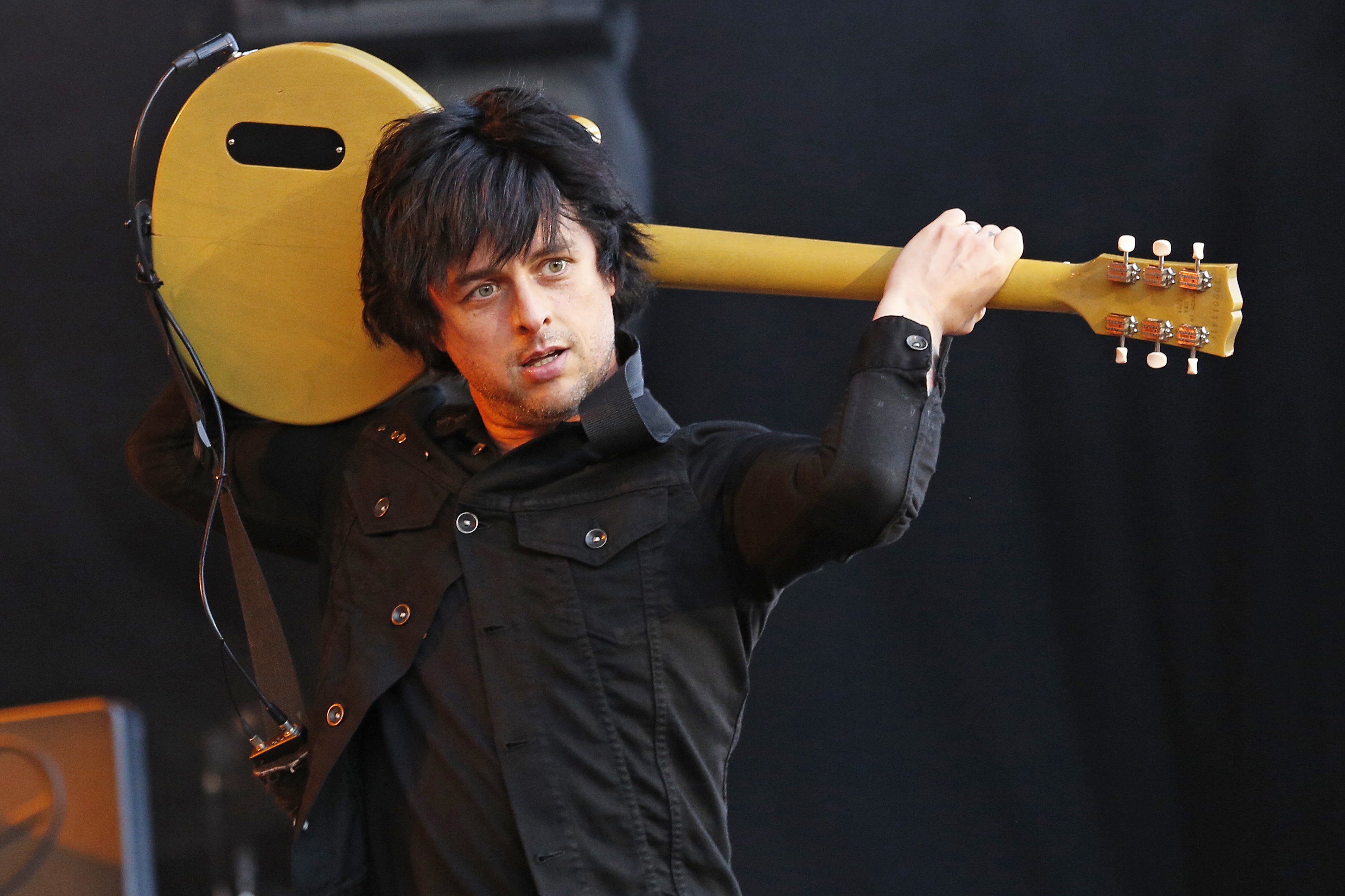 Billie Joe Armstrong, singer and guitarist of Green Day, stands on the Center Stage of Rock im Park-Festival 2013.